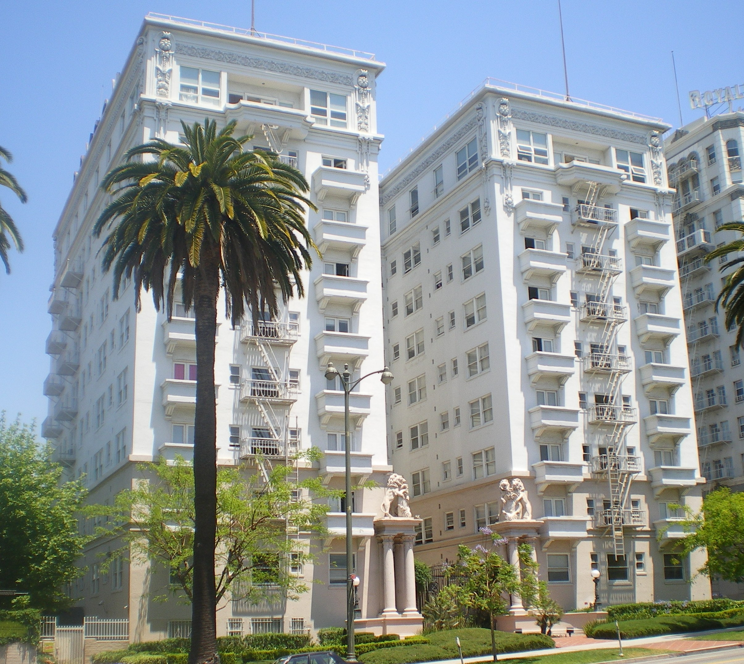 Bryson Apartment Hotel, 2701 Wilshire Blvd., in the Westlake District of Los Angeles, California.